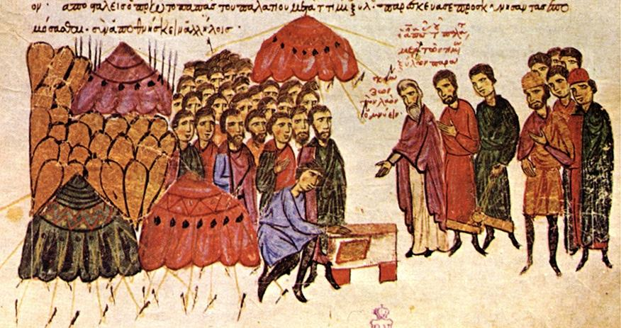 The Byzantine army takes oath before the battle of Anchialus against the Bulgarians in 917